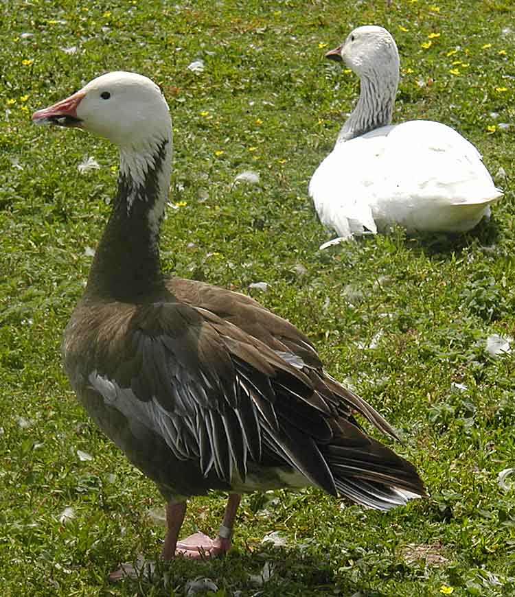 Lesser Snow Goose in both “blue” and white phase plumage, at Slimbridge Wildfowl and Wetlands Centre, Gloucestershire, England